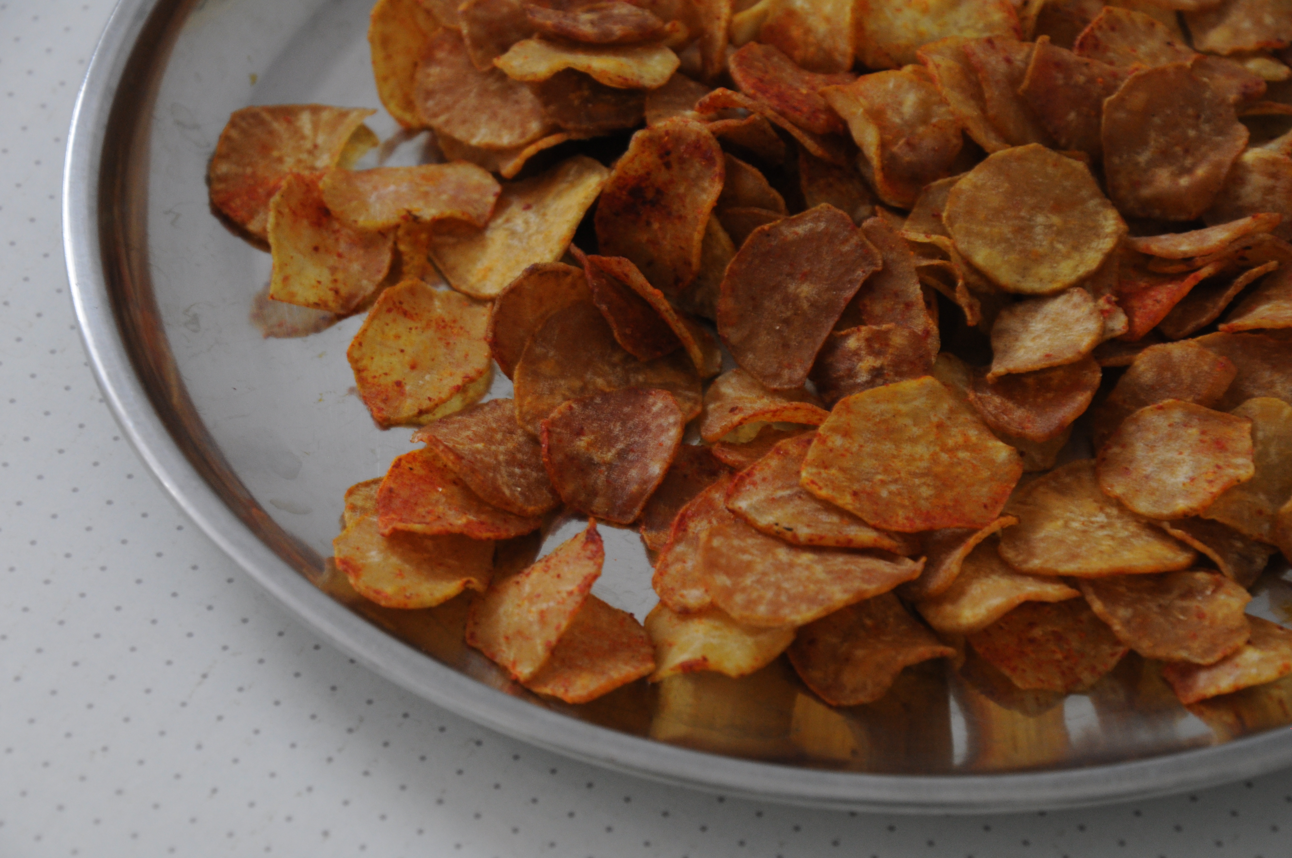 One evening, we sliced tapioca for a change and fried them. The result was this.